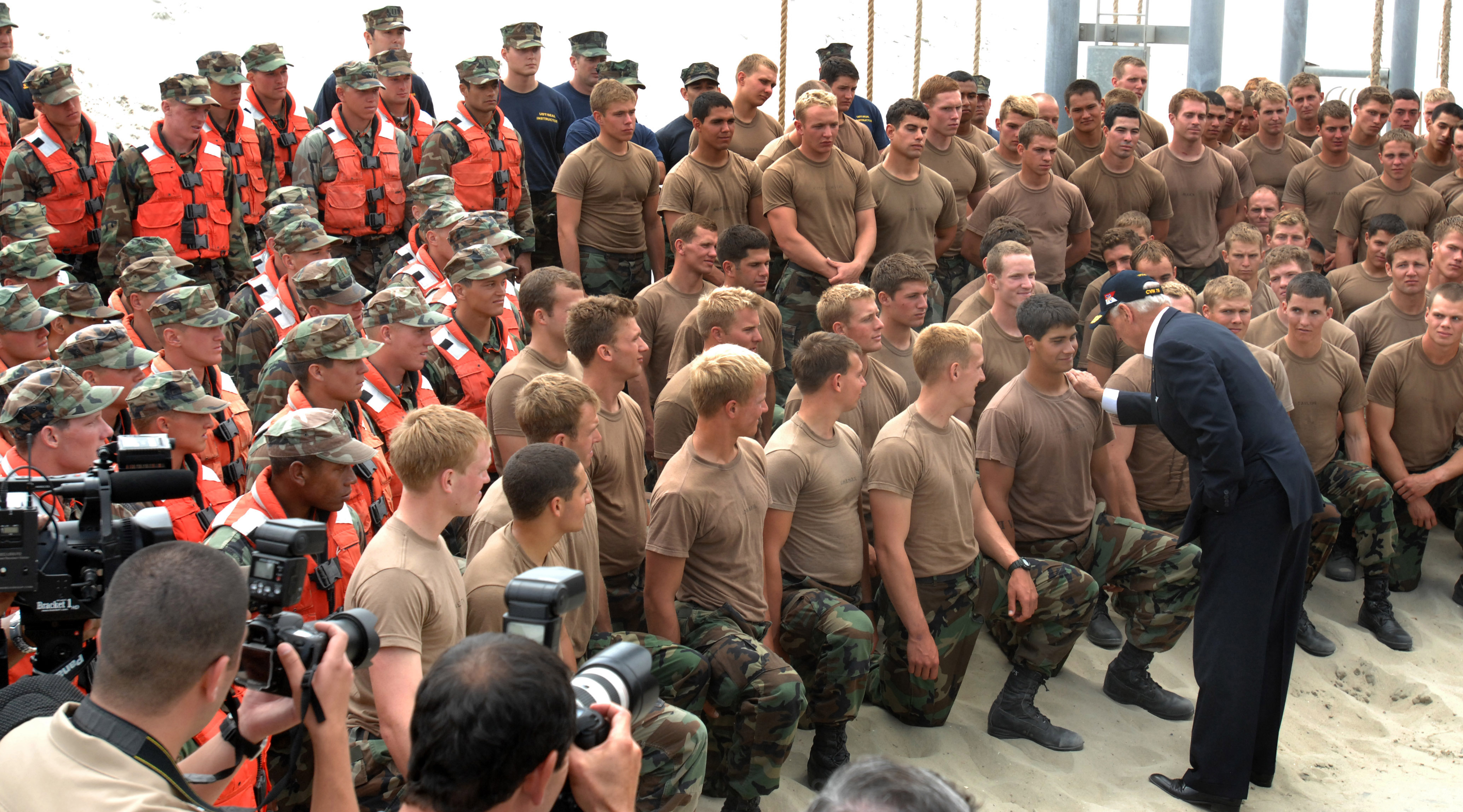 CORONADO, Calif. (May 14, 2009) Vice President Joe Biden places a hand on the shoulder of one of the Basic Underwater Demolition/SEAL (BUD/S) candidates while speaking to them on the beach at Naval Special Warfare Center during his visit to San Diego. BUD/S candidates must complete three phases of training and qualify in advanced training during a yearlong program to become Navy SEALs. Navy SEALs are maritime special operations forces who strike from the Sea, Air and Land. (U.S. Navy photo by Mass Communication Specialist 2nd Class Dominique M. Lasco/Released)